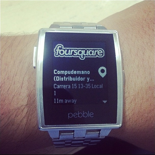 Apple forsquare on wearable phone watch